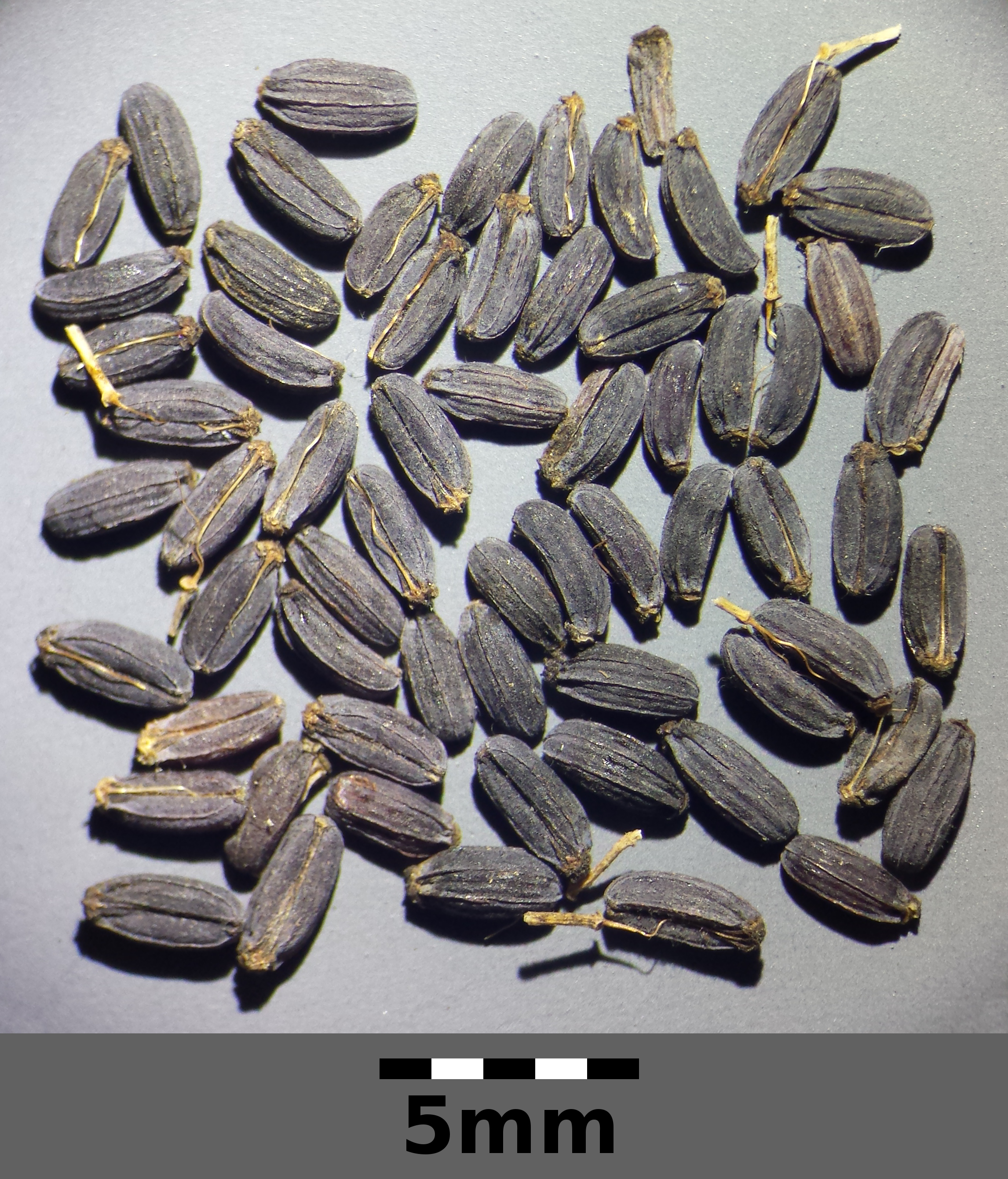 Fruits Taxon: Bupleurum rotundifolium (sensu Fischer et al. EfÖLS 2008 ISBN 978-3-85474-187-9) Location: Steinbacher Heide, Leiser Berge, district Korneuburg, Lower Austria - ca. 450 m a.s.l. Habitat: rocky grainfield (limestone)